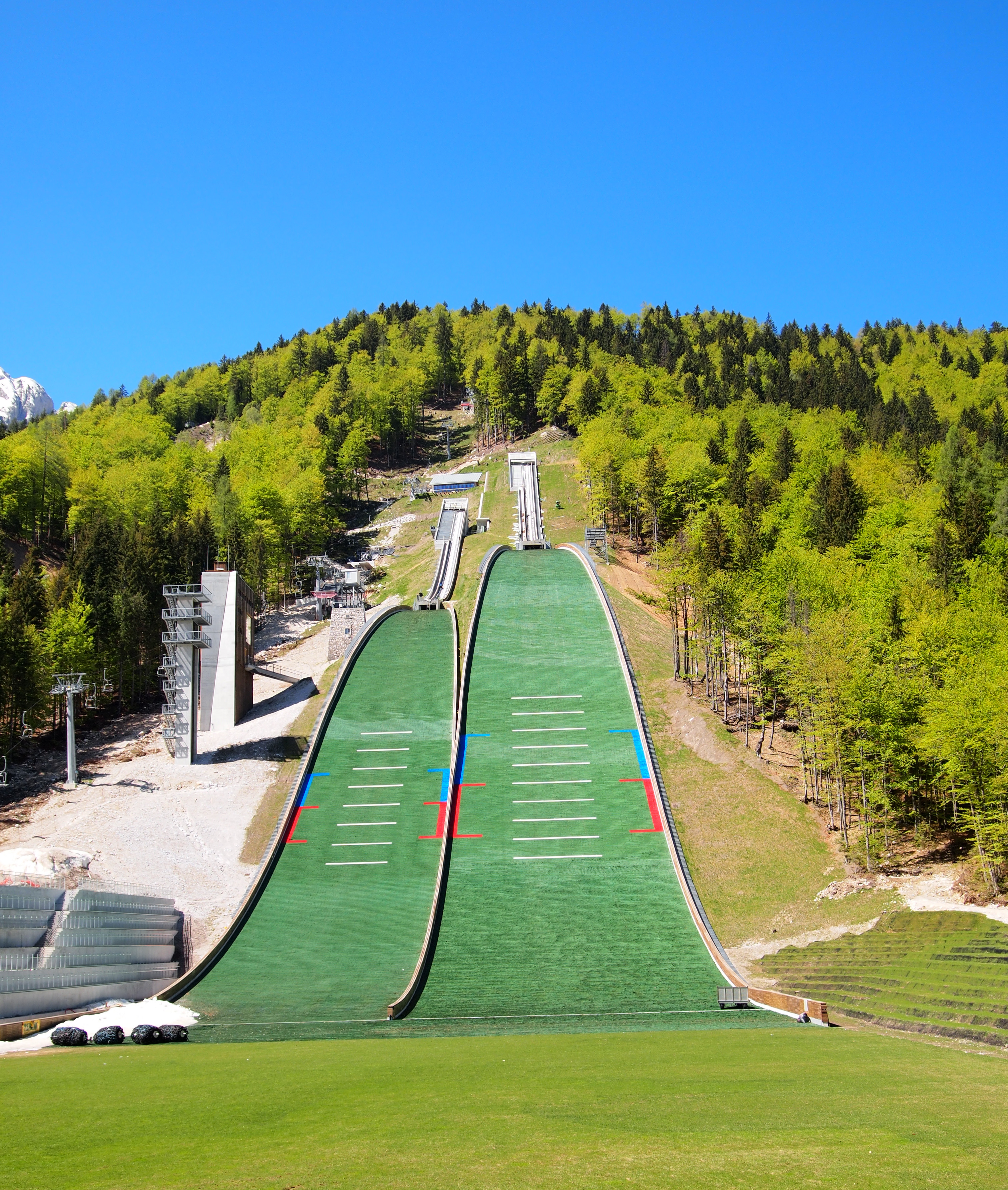 Bloudkova velikanka ski jumps in Ratece, Slovenia. This photograph was taken with a Olympus E-PL1.